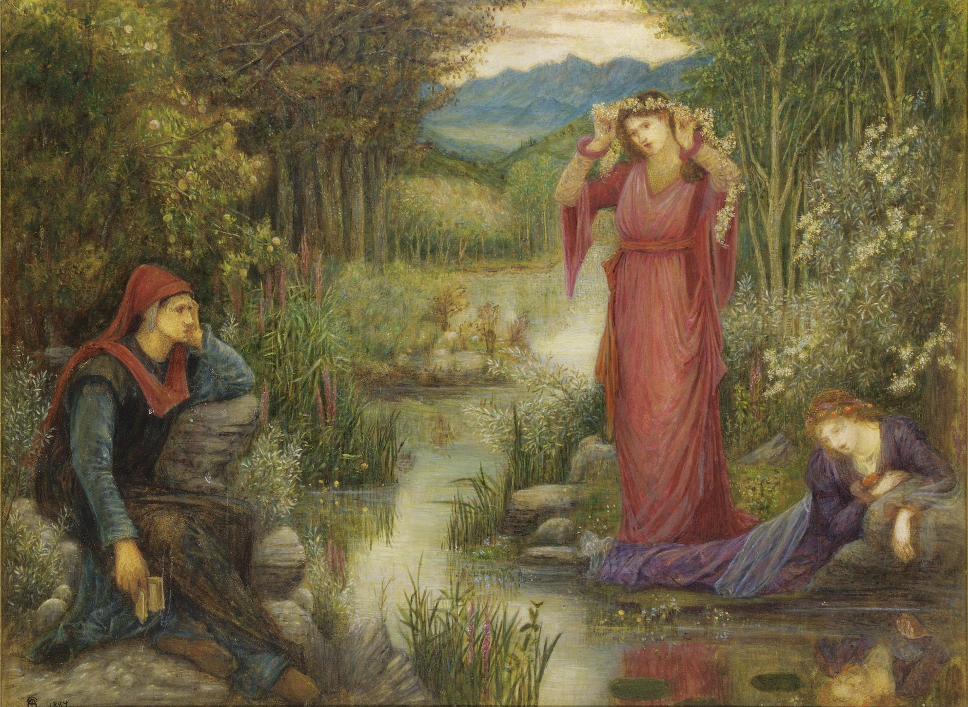 A scene from Canto XXVII, Purgatorio, Divina Commedia.